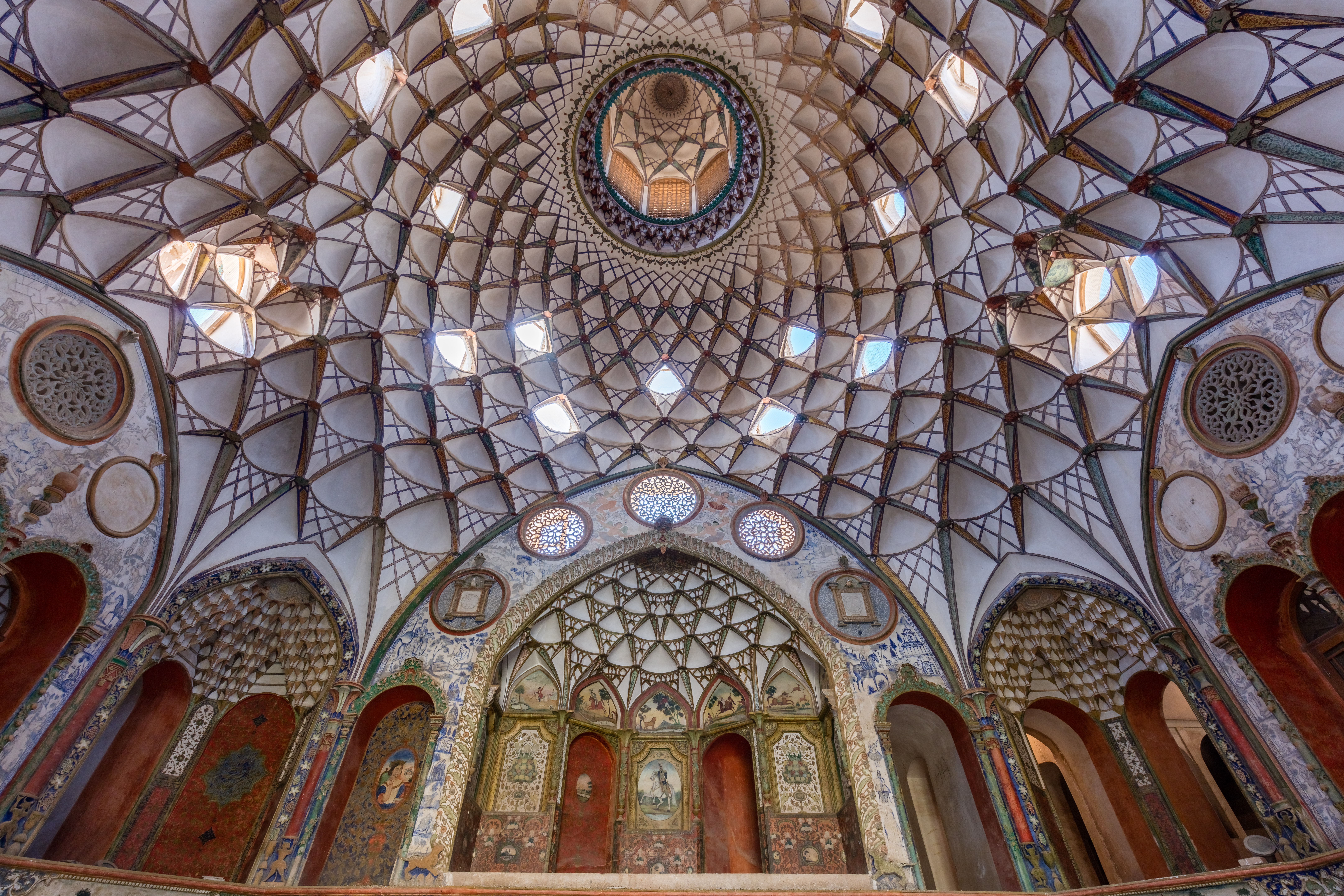 View of the rich ceiling of the interior courtyard of the Borujerdi House, a historic house located in Kashan, Iran. The house dates from 1857 and was constructed by architect Ustad Ali Maryam for a wealthy merchant as proof of love to his wife.